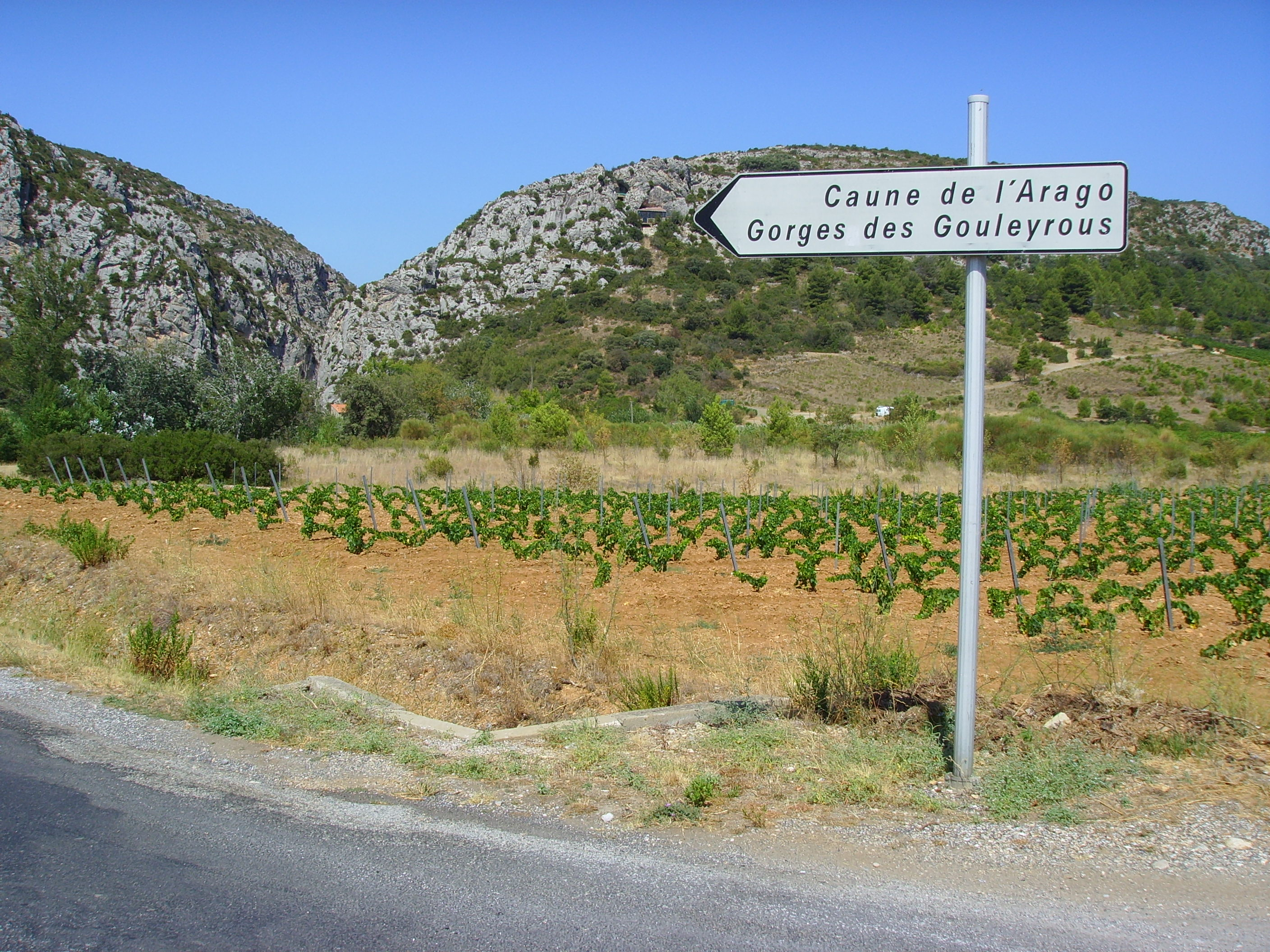 Arago-cave, near Tautavel (Perpignan-region), France: to the left of signpost